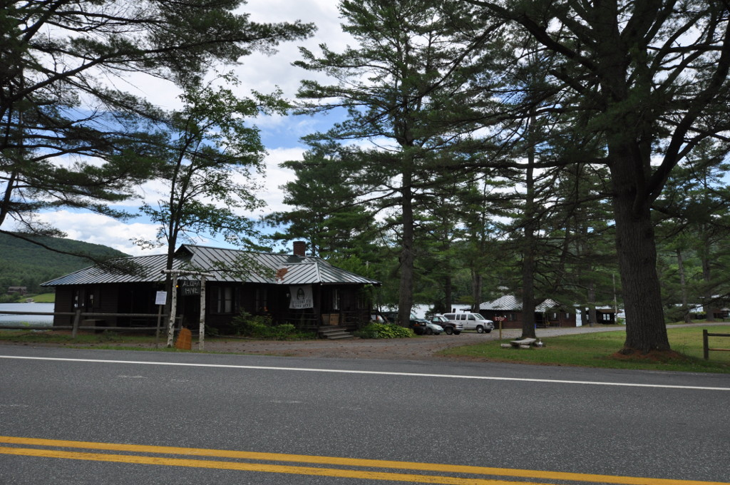 Aloha Hive Camp, West Fairlee, Vermont.